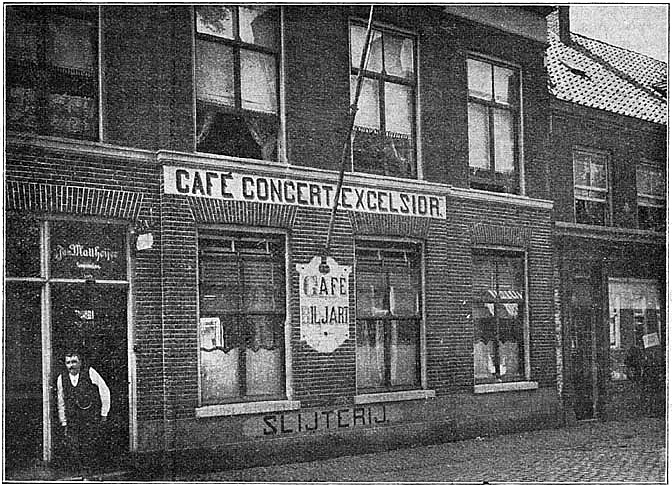 In 1872 the Hague Congress of the First International, the fifth congress of the International Workingmen's Association (IWA), took place at the Café Concert Excelsior in the Lange Lombardstraat 109, The Hague, the Netherlands.